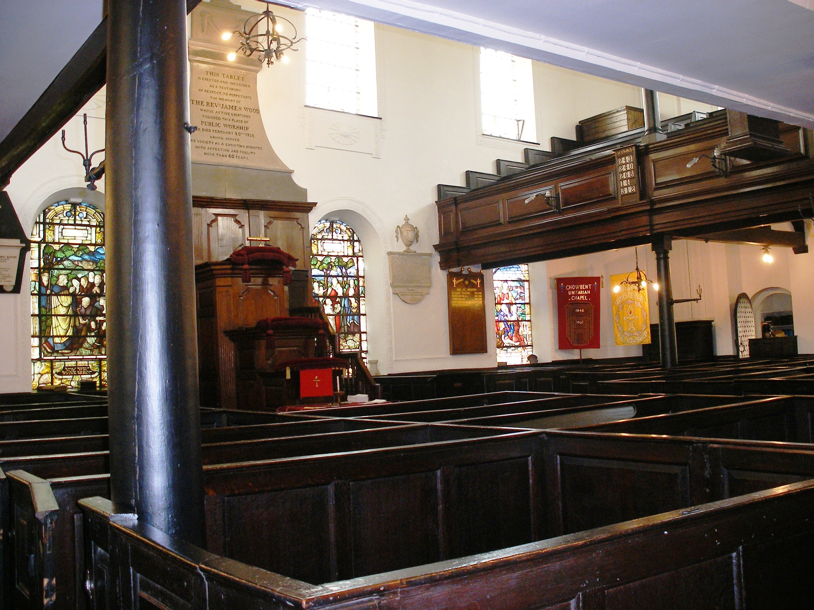 Interior of Chowbent Chapel, Bolton Old Road, Atherton, Greater Manchester. This Unitarian chapel was founded in 1645. The present building dates from 1721.